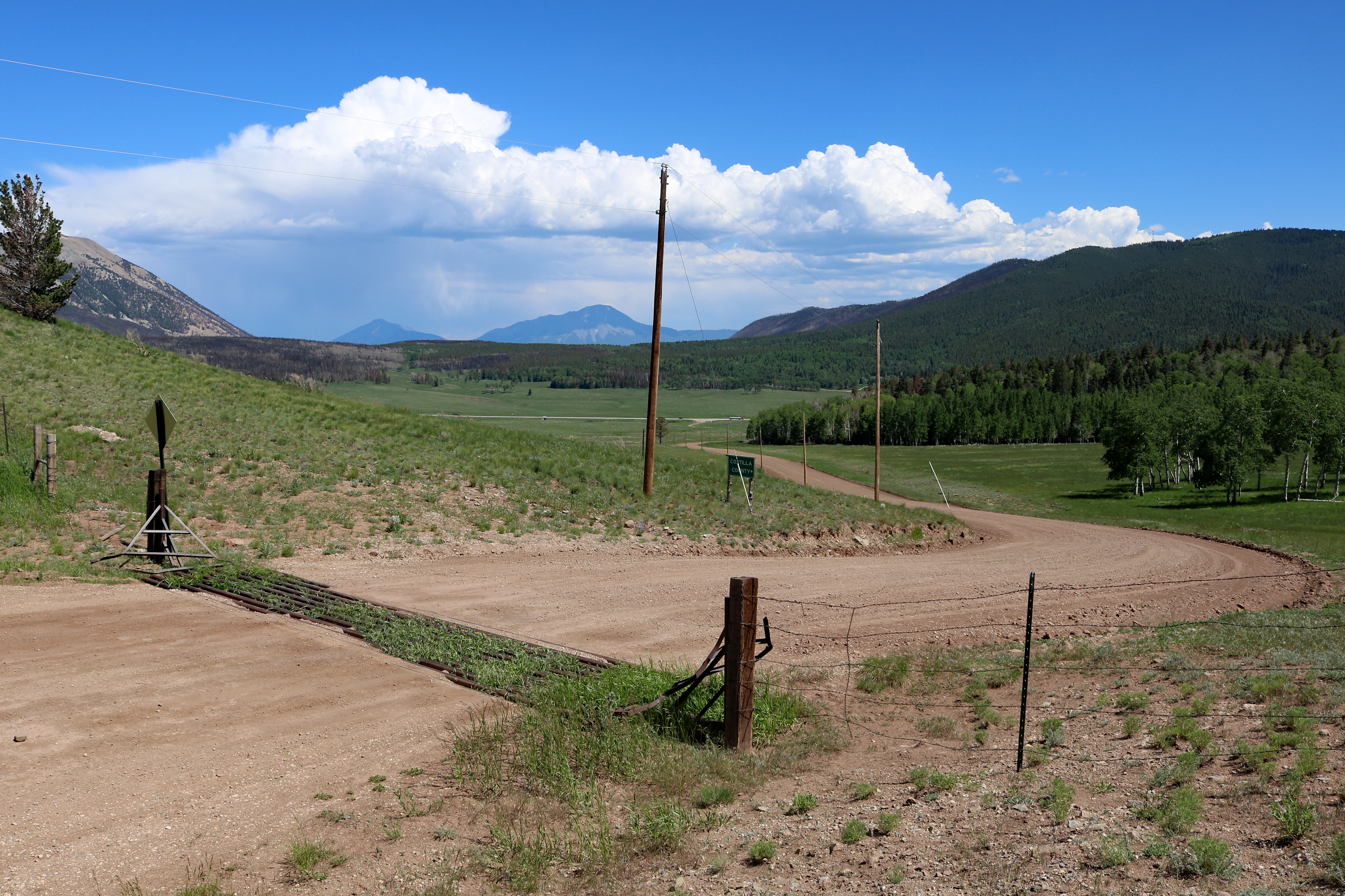 Pass Creek Pass in Huerfano and Costilla counties in Southern Colorado. The fence and cattle guard mark the pass and the border between the two counties. U.S. Route 160 and the Spanish Peaks can be seen in the background. The pass is close to La Veta Pass and Sangre de Cristo Pass.